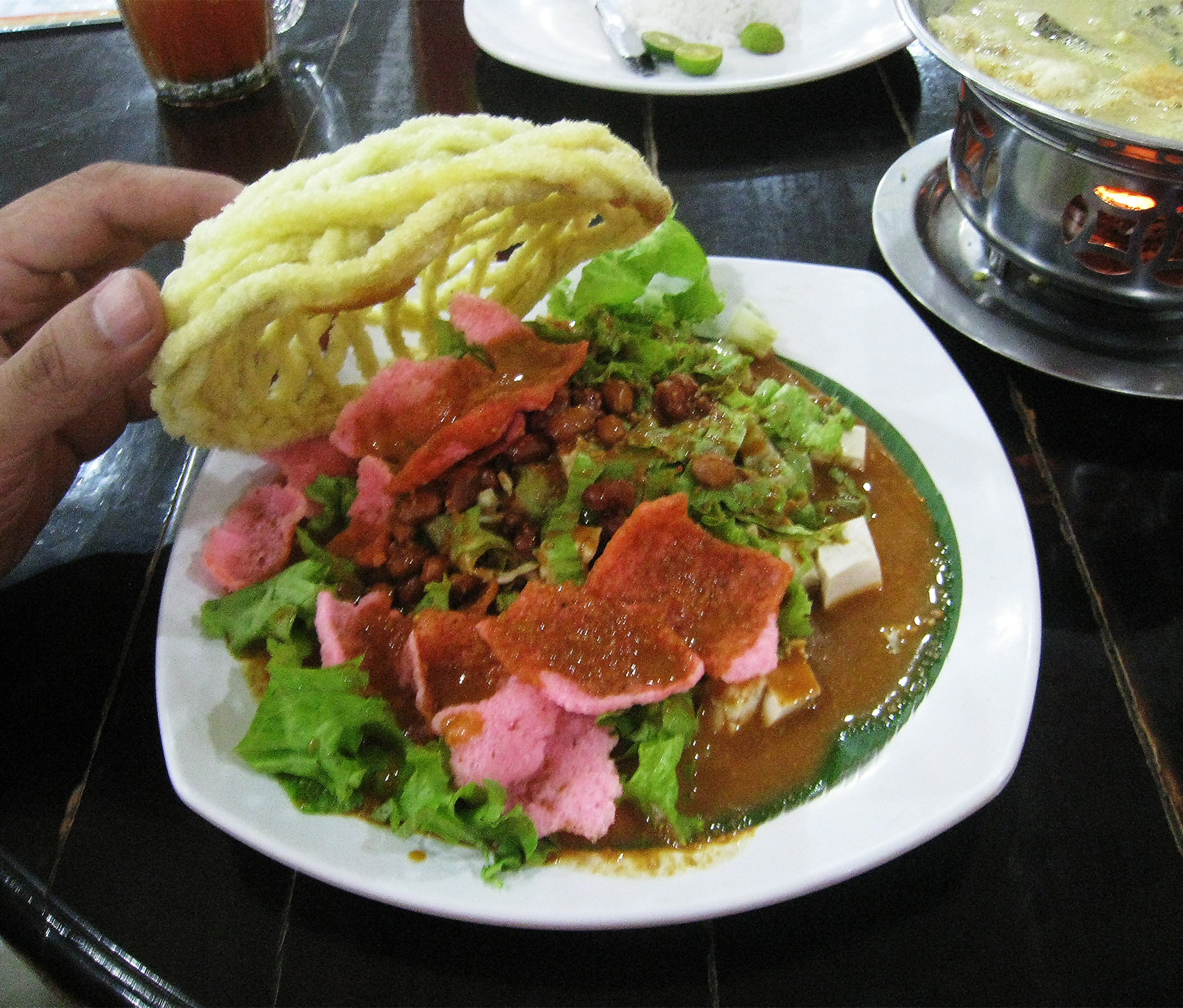 Asinan Betawi (preserved vegetables dish), authentic Betawi (native Jakartans) food served in Sarinah Foodcourt, Central Jakarta, Indonesia.